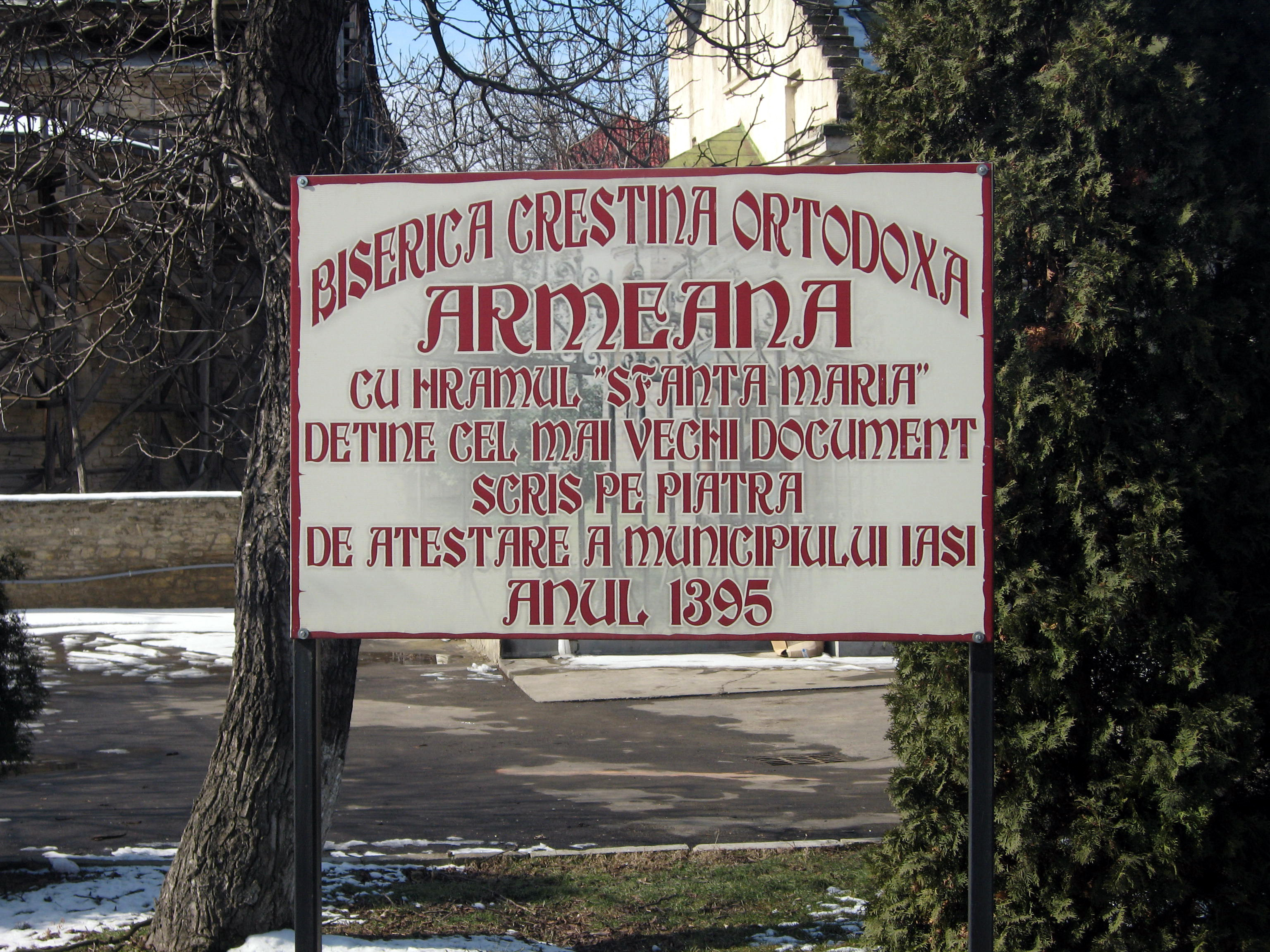 Armenian church in Iași